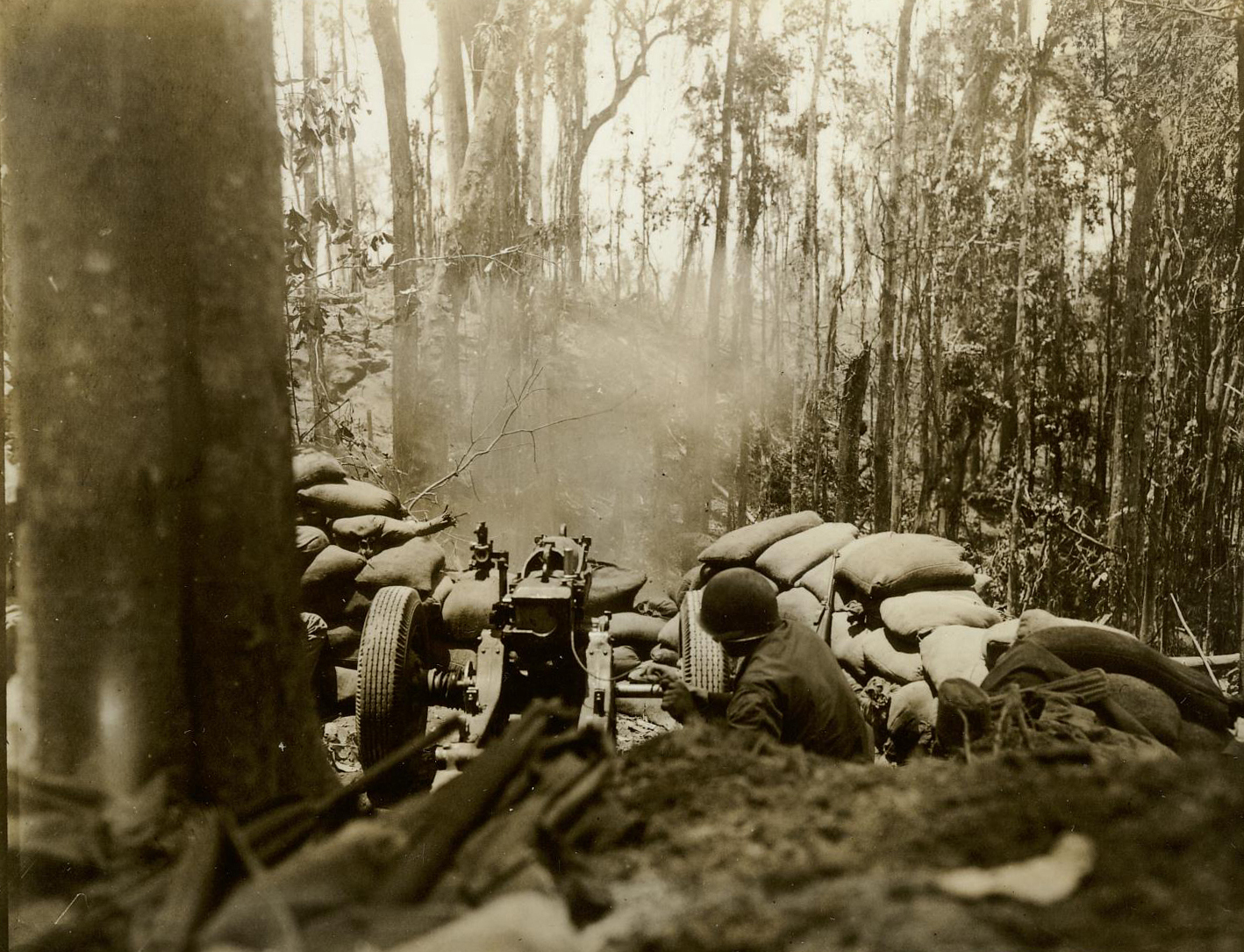 A US Army 75mm Howitzer firing on Hill 260 from Hill 309 during the Japanese offensive against Allied positions at Bougainville in March 1944